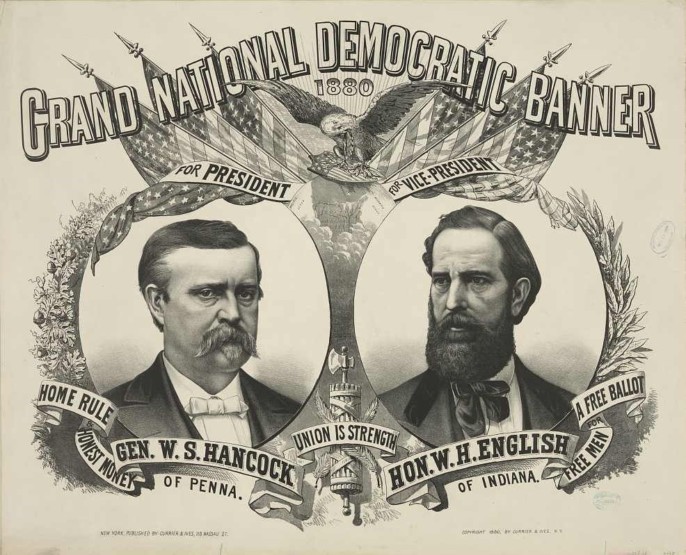 Grand national Democratic banner: 1880.